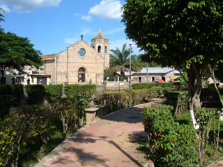 View of the catholic church from the Parque Central in Campamento (municipality in the Honduran department of Olancho). The photo was taken during the remodeling of the church, so you may notice it has no roof. The police station is also under renovations across the street.